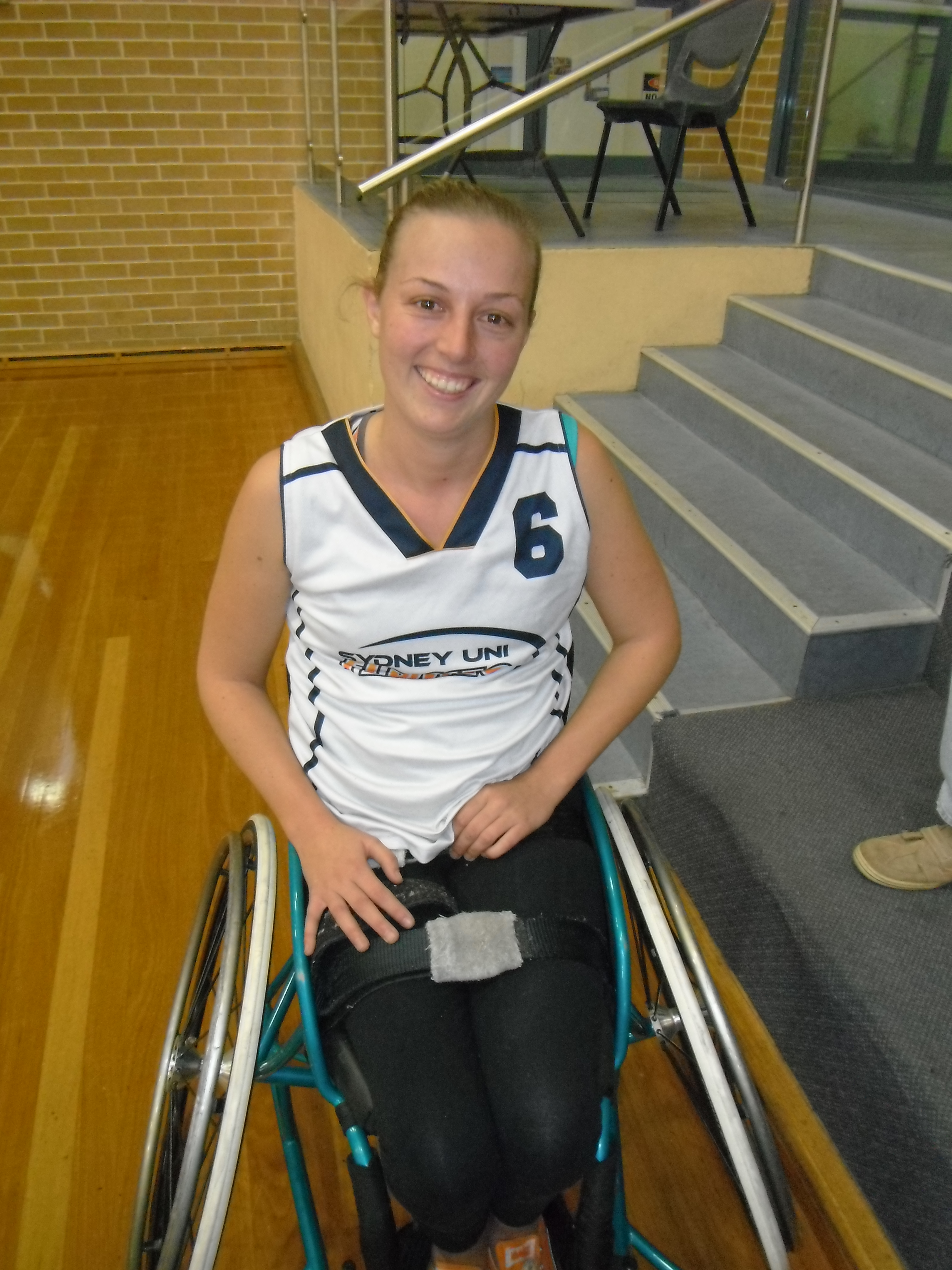 Caitlin de Wit playing wheelchair basketball for the Sydney University Flames